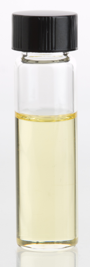 Glass vial containing Elemi Essential Oil